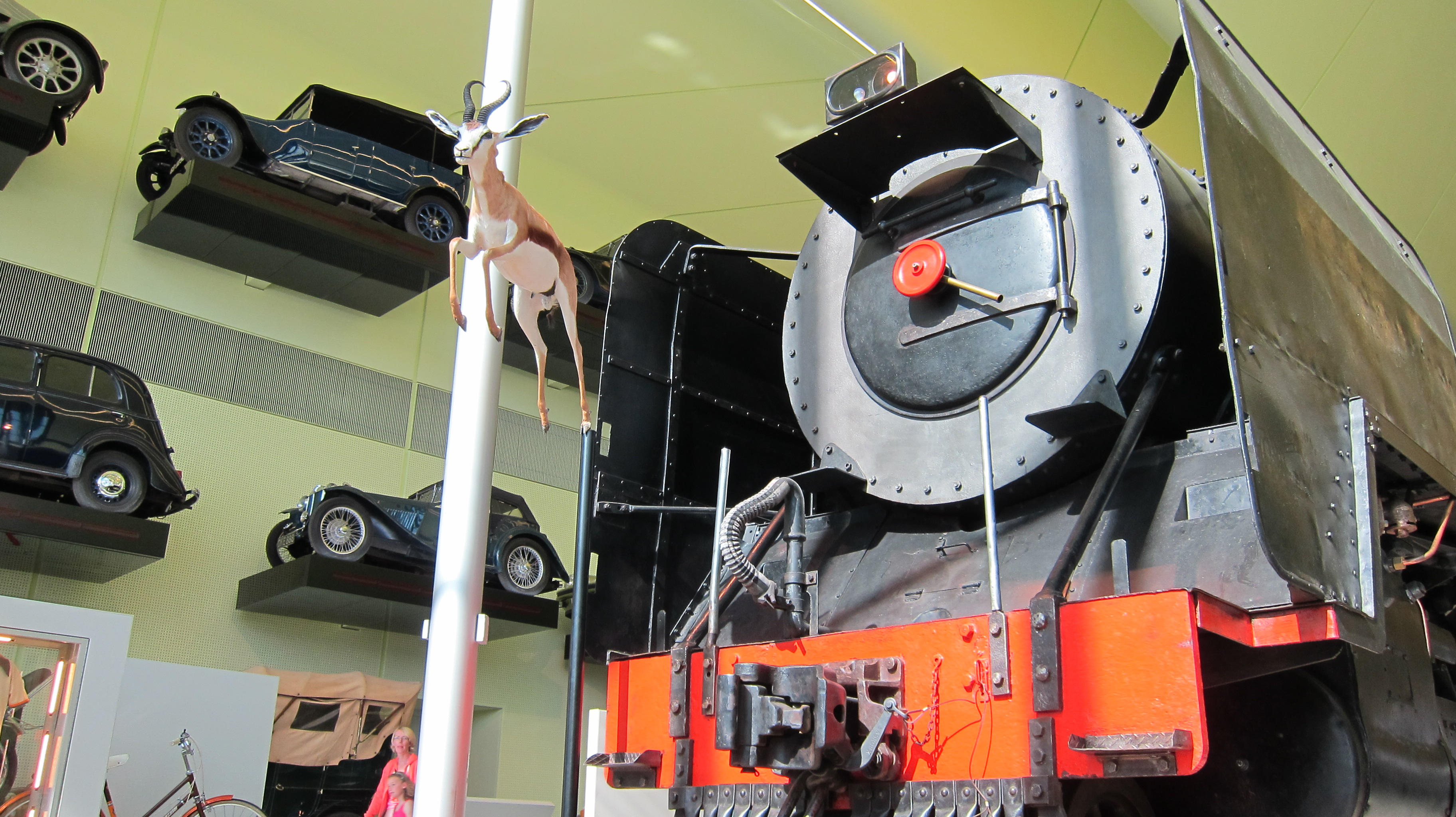 South African Locomotive at The Riverside Museum